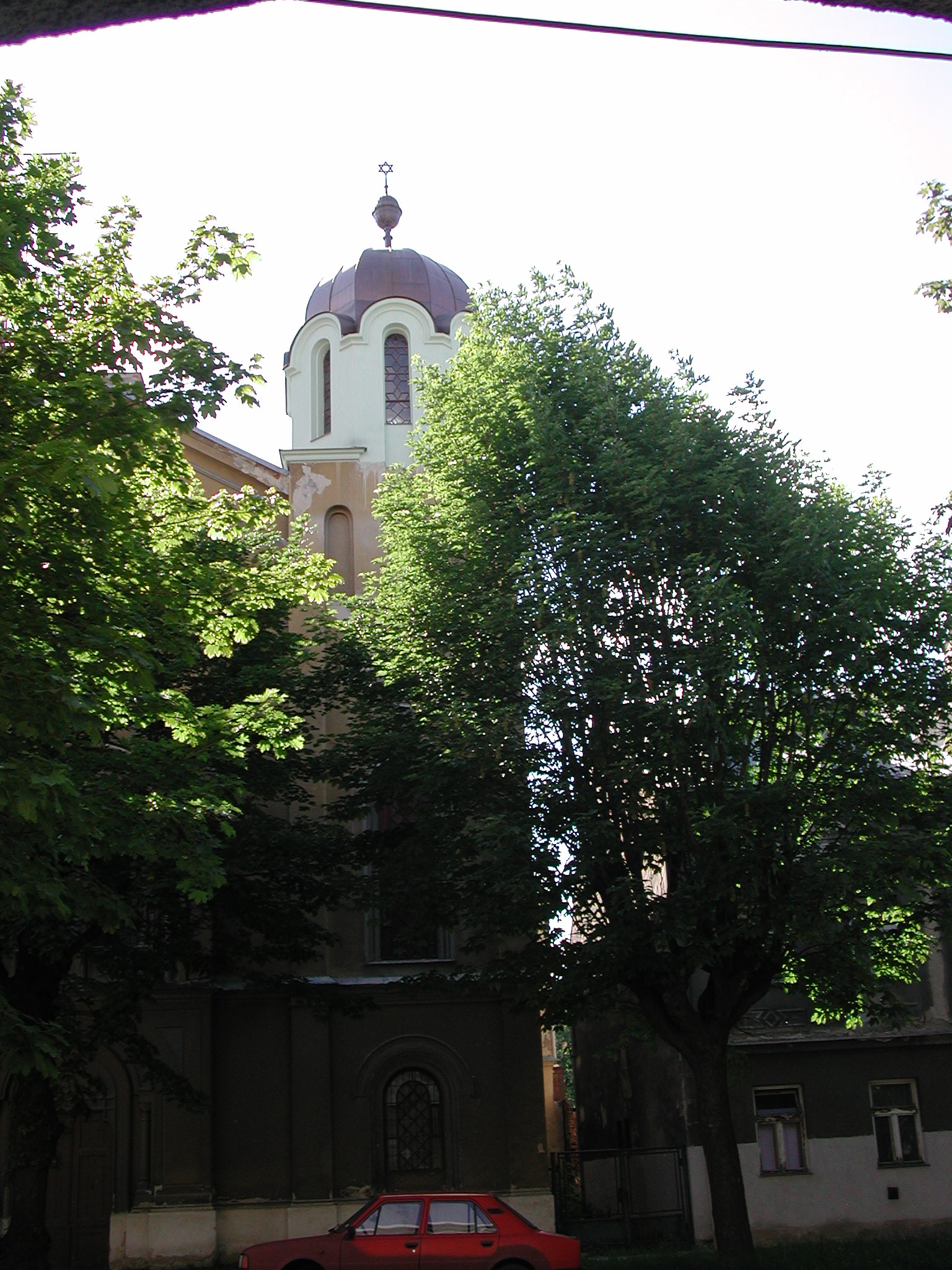 One of the towers